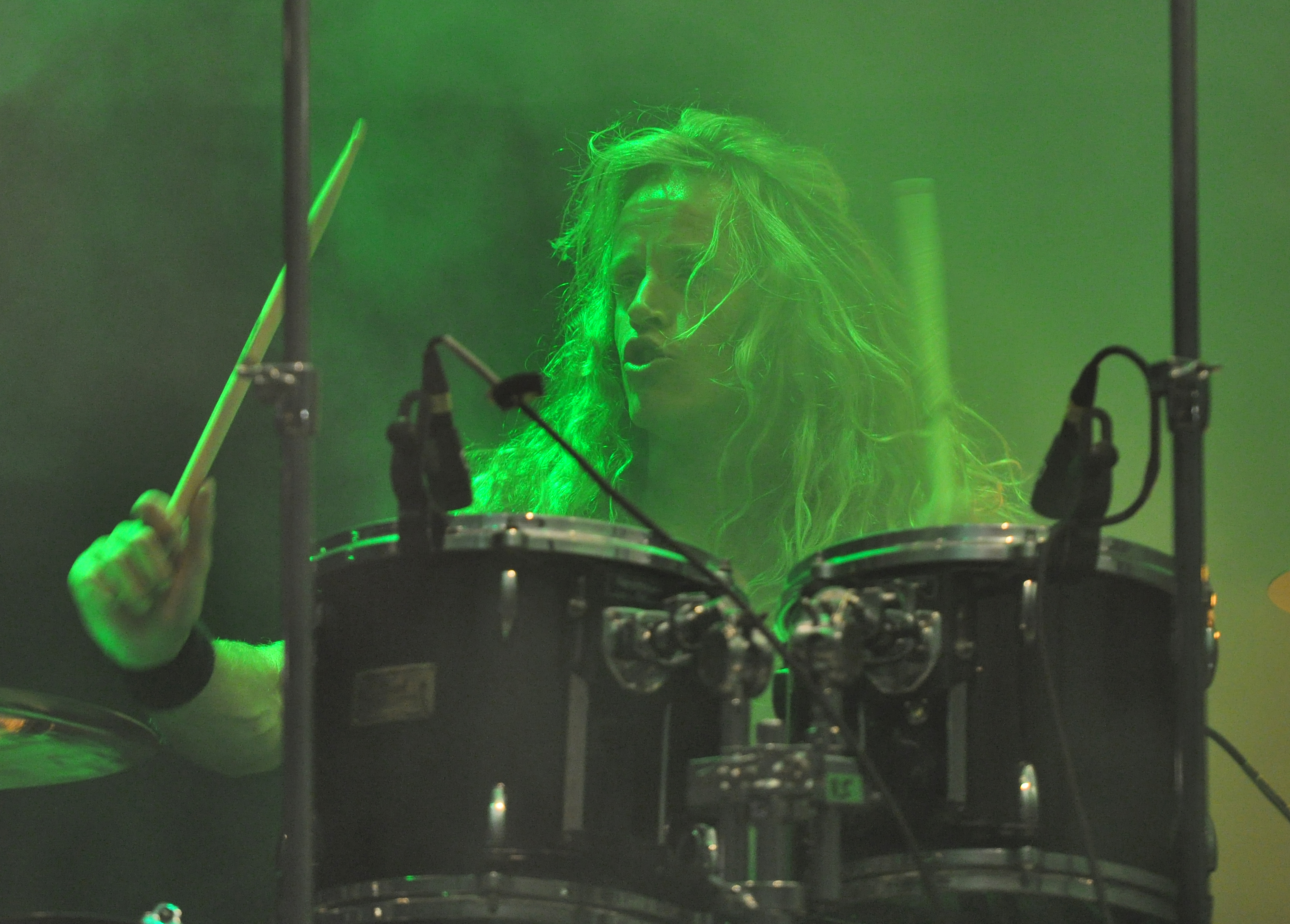 Venom at Party.San Metal Open Air 2013